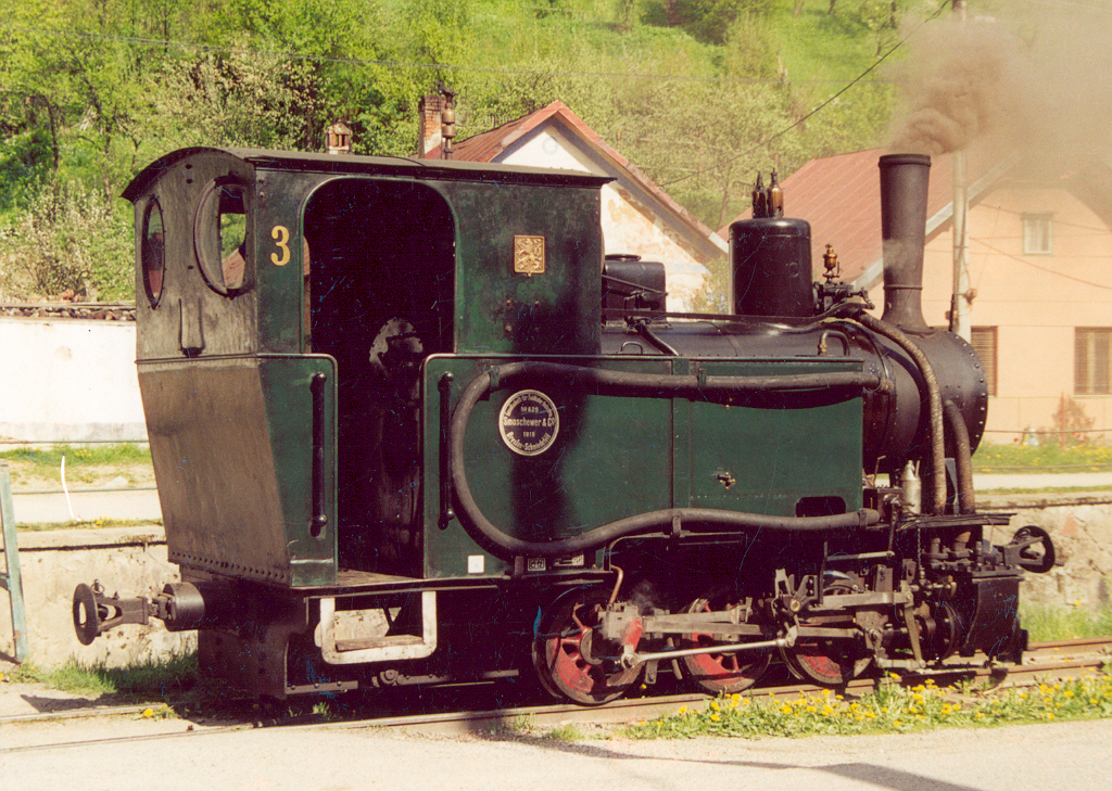 Small CHZ steam locomotive in Hronec village. Locomotive was rebuilded from gauge 600 mm to 760 mm. Author:Stanislav Jelen